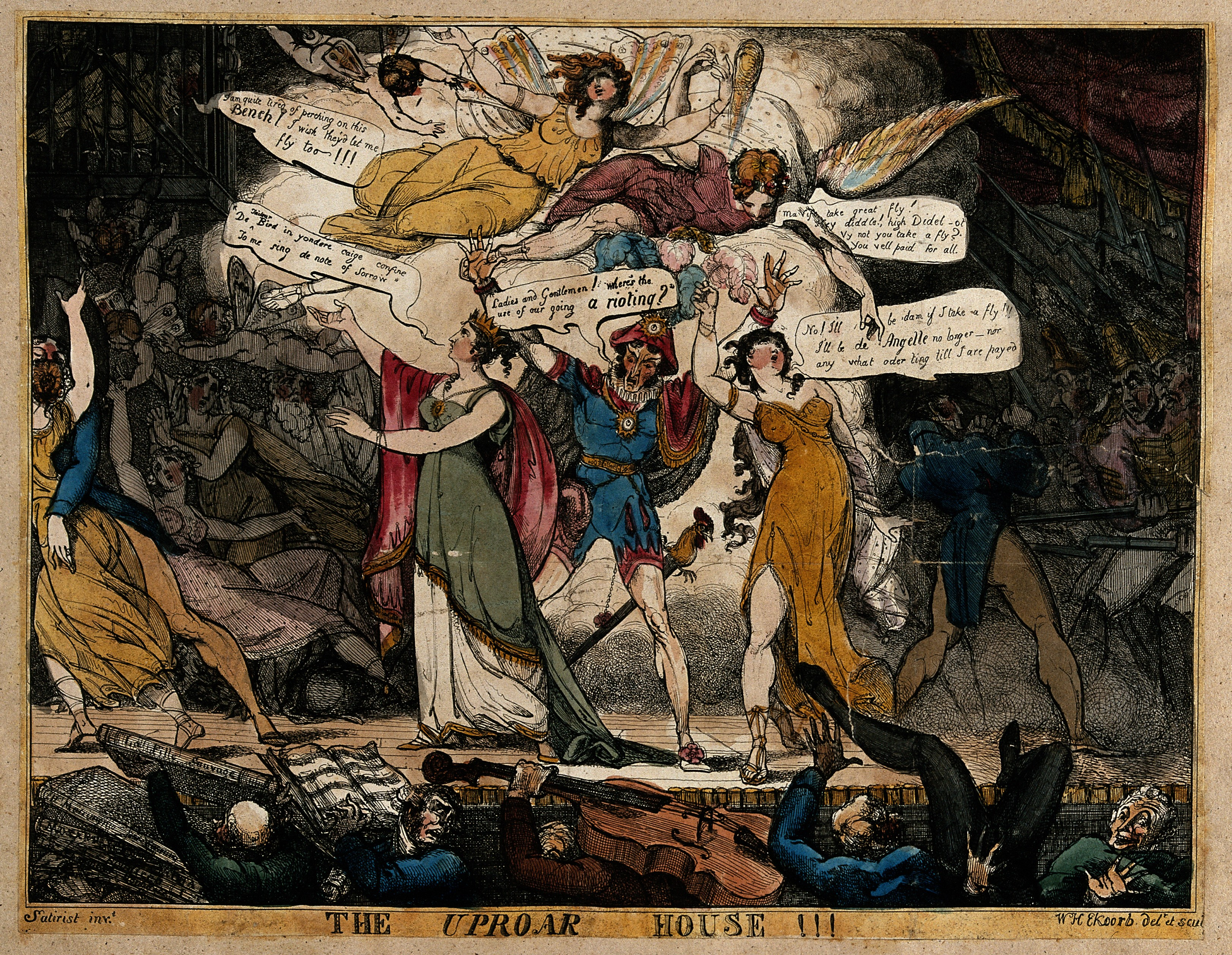 A riot at the King's theatre, Haymarket, London, on 1 May 1813. Coloured etching by W.H. Brooke after Satirist, 1813. Iconographic Collections Keywords: William Henry Brooke; Satirist